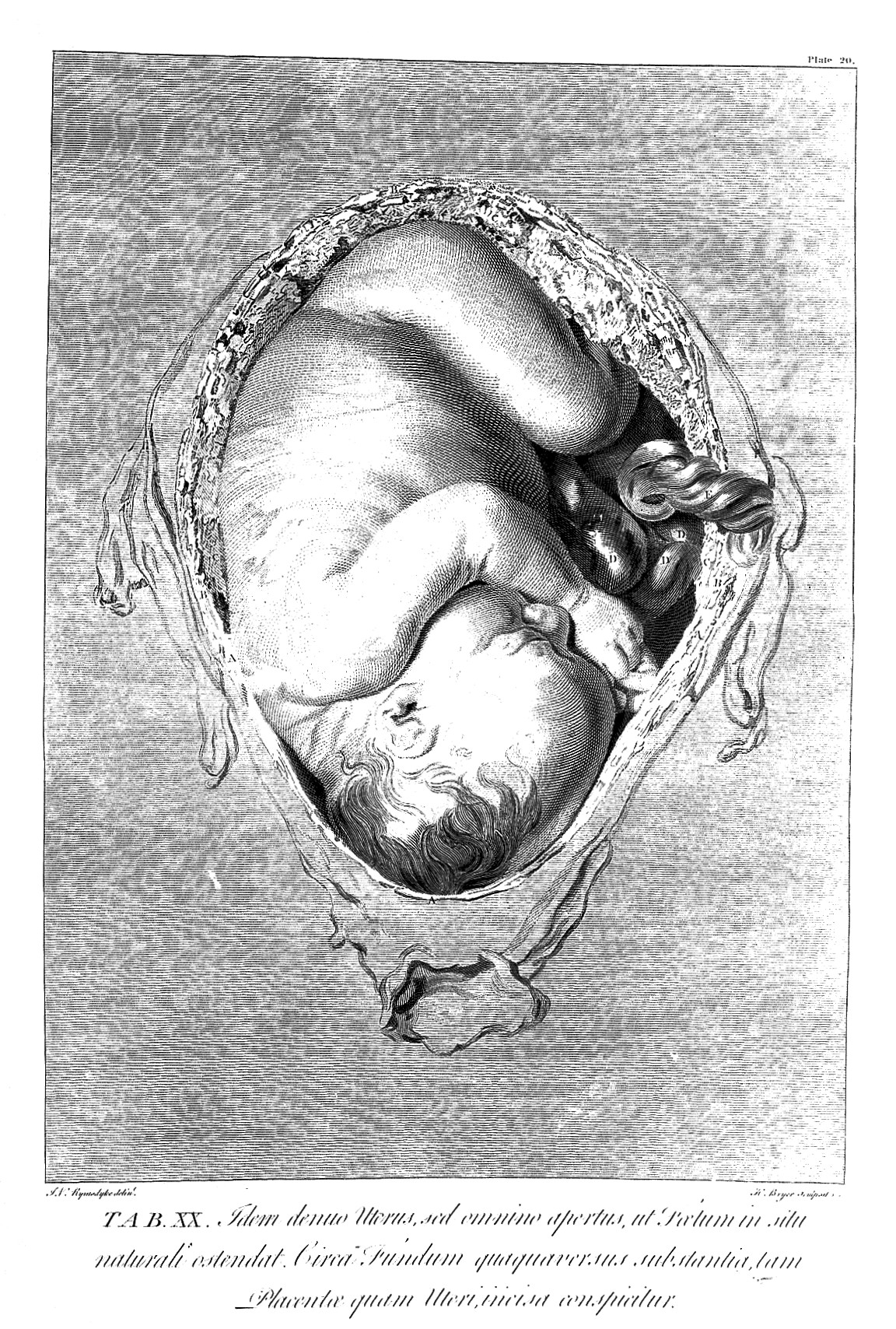 Foetus in utero. Foreview of the womb, fully opened to show the child in its natural situation. Rare Books Keywords: chidbirth; Obstetrics; Anatomy; Fetus; William Hunter